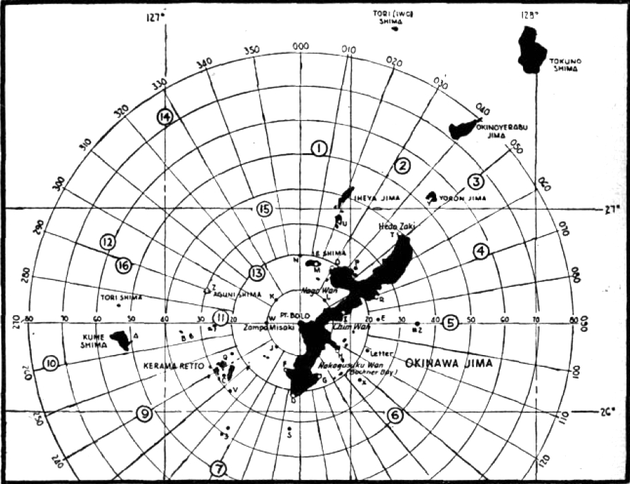 Map showing the U.S. Navy radar picket stations during the Battle of Okinawa, in 1945.